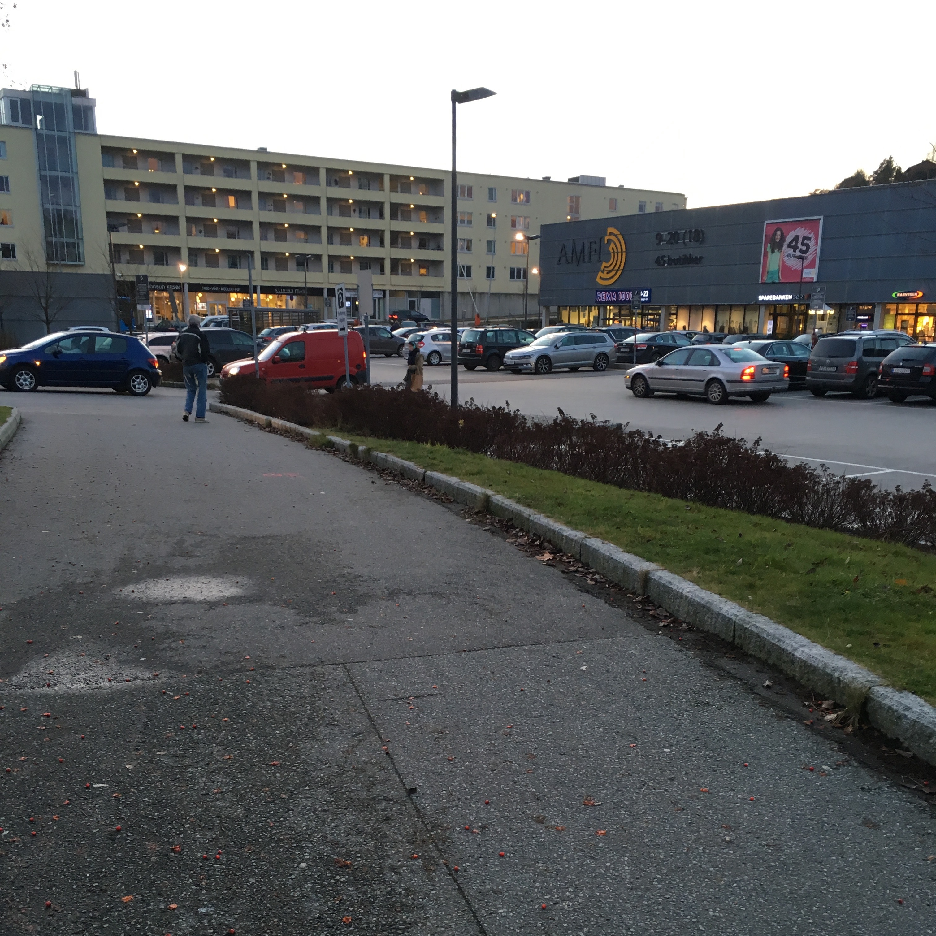 Vågsbygd sentrum, Kristiansand